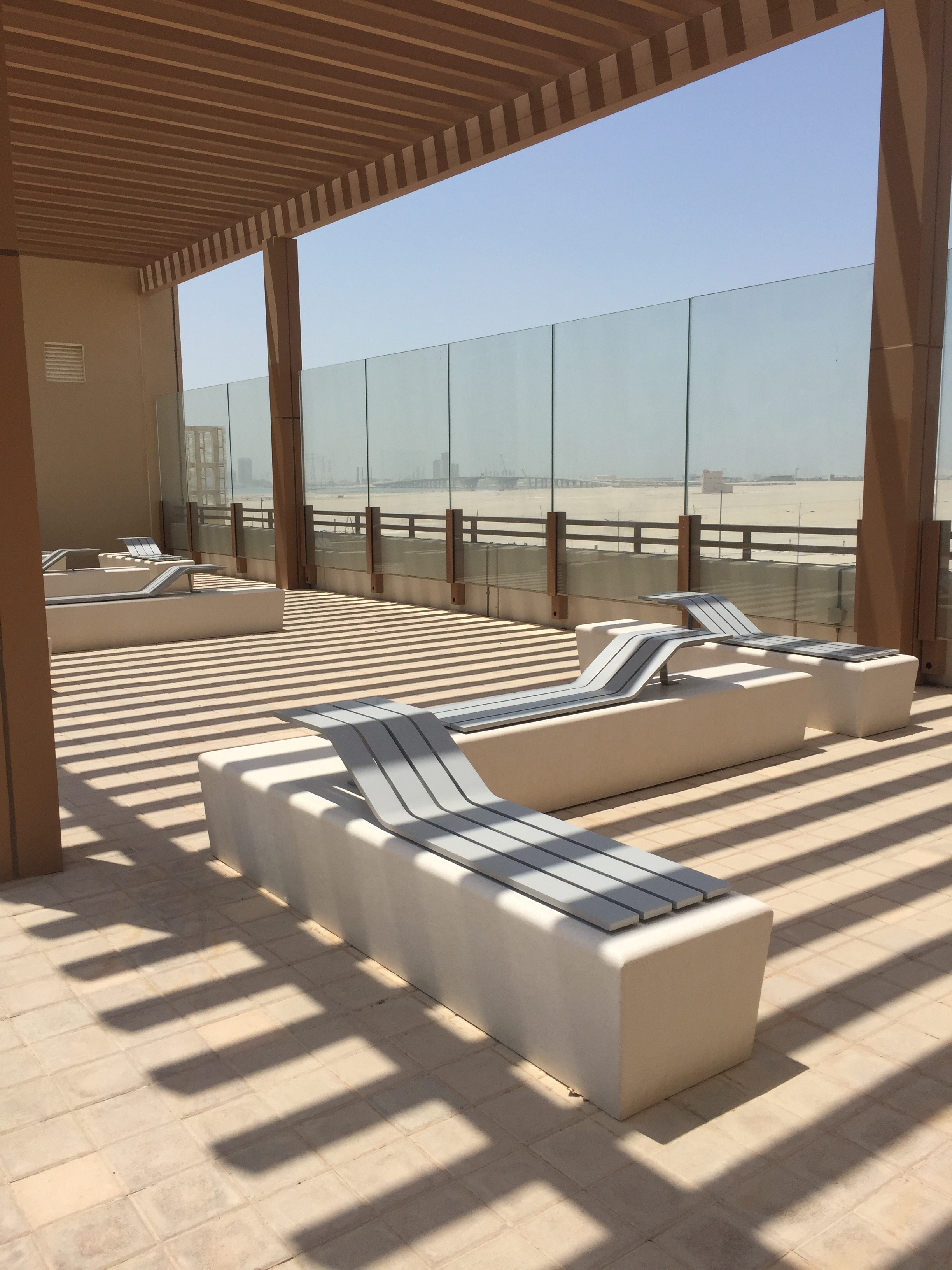 Seating area on NYU Abu Dhabi Highline facing Gulf and Louvre